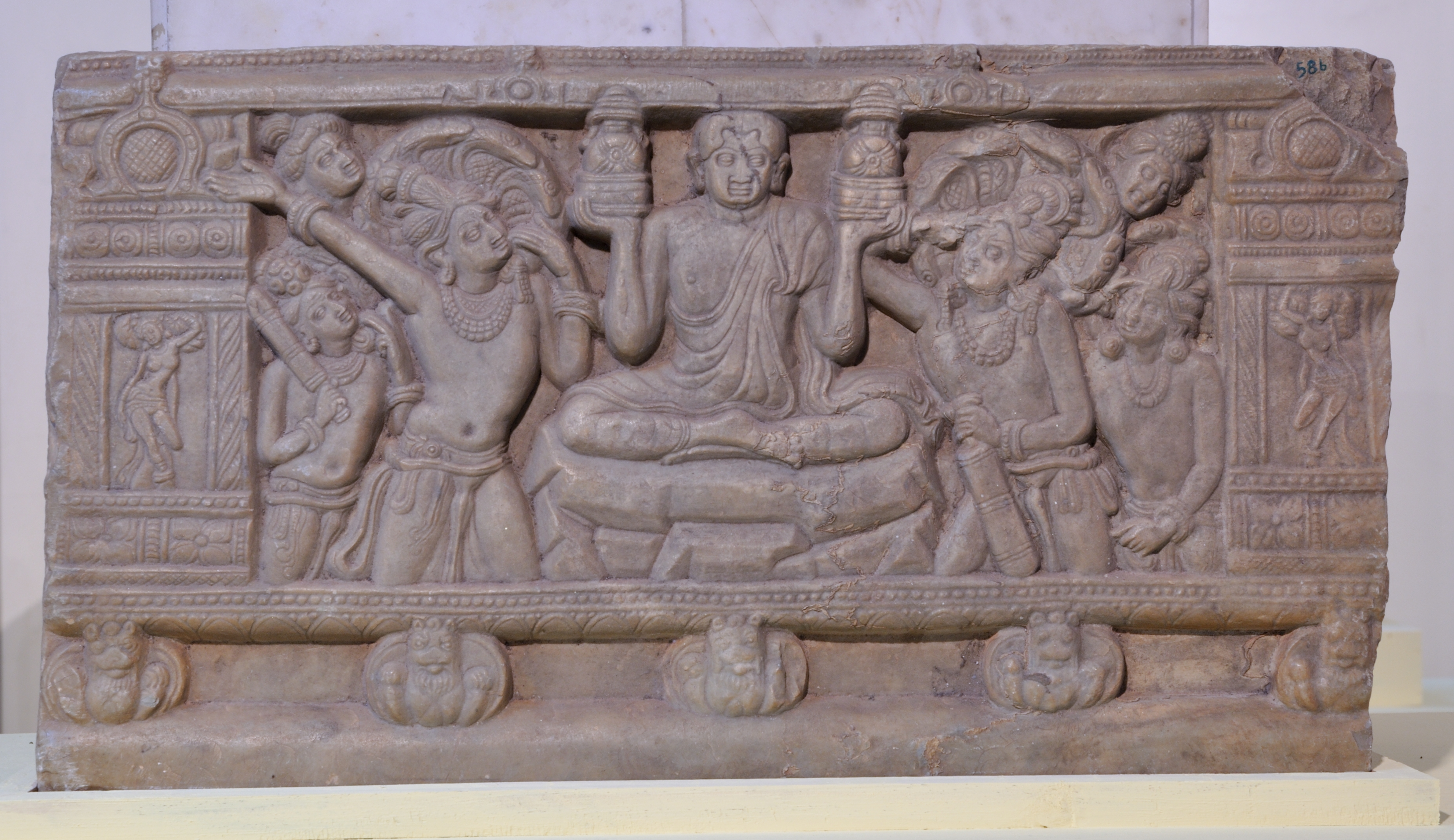 This artefact was exhibited as 'Indian Buddhist Art' exhibition from 20 December to 25 December, 2012, at the Asutosh Birth Centenary Hall, Indian Museum, Kolkata.